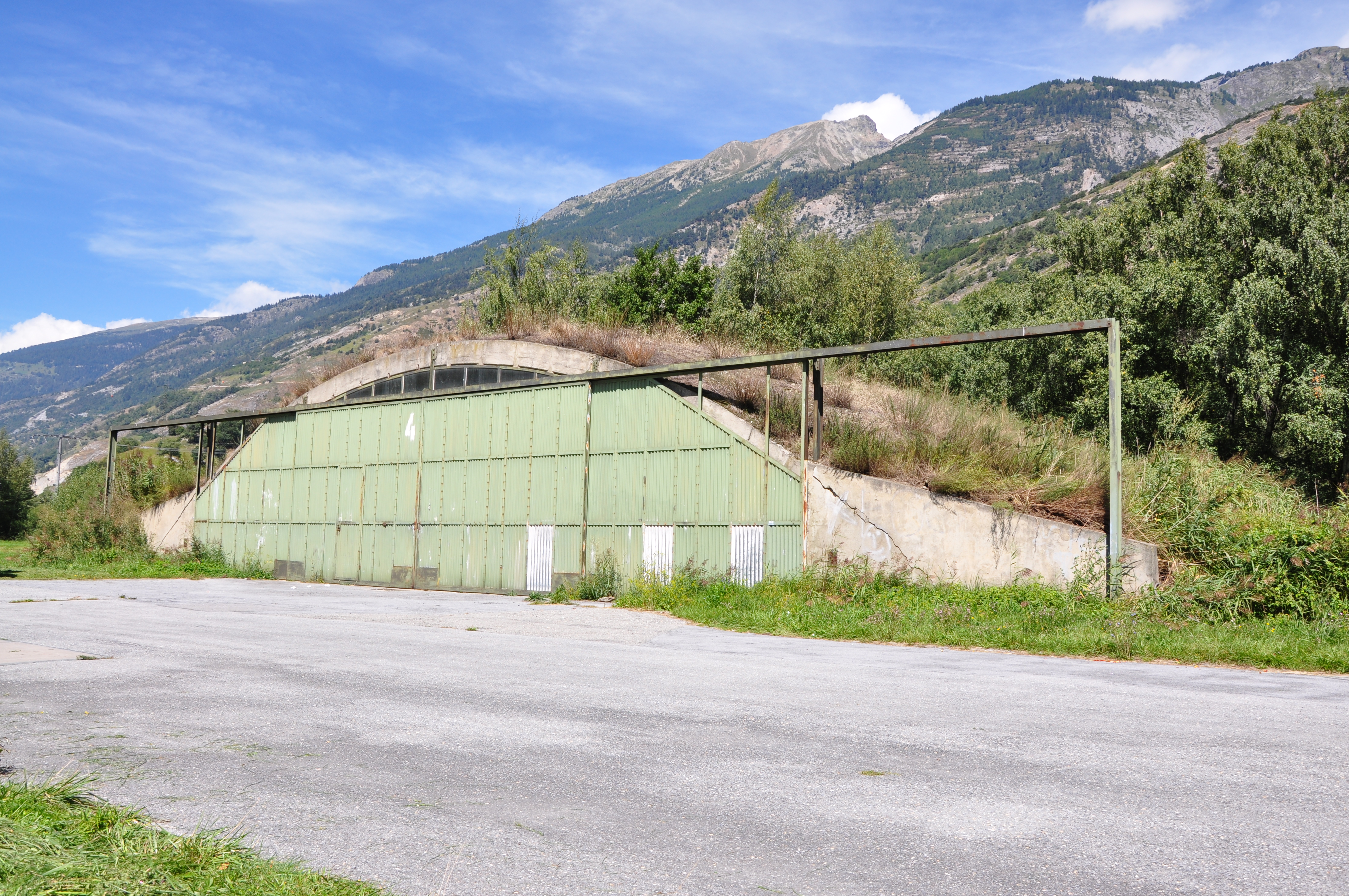 Hangar 4 (type U-43) at Raron airfield (LSTA)